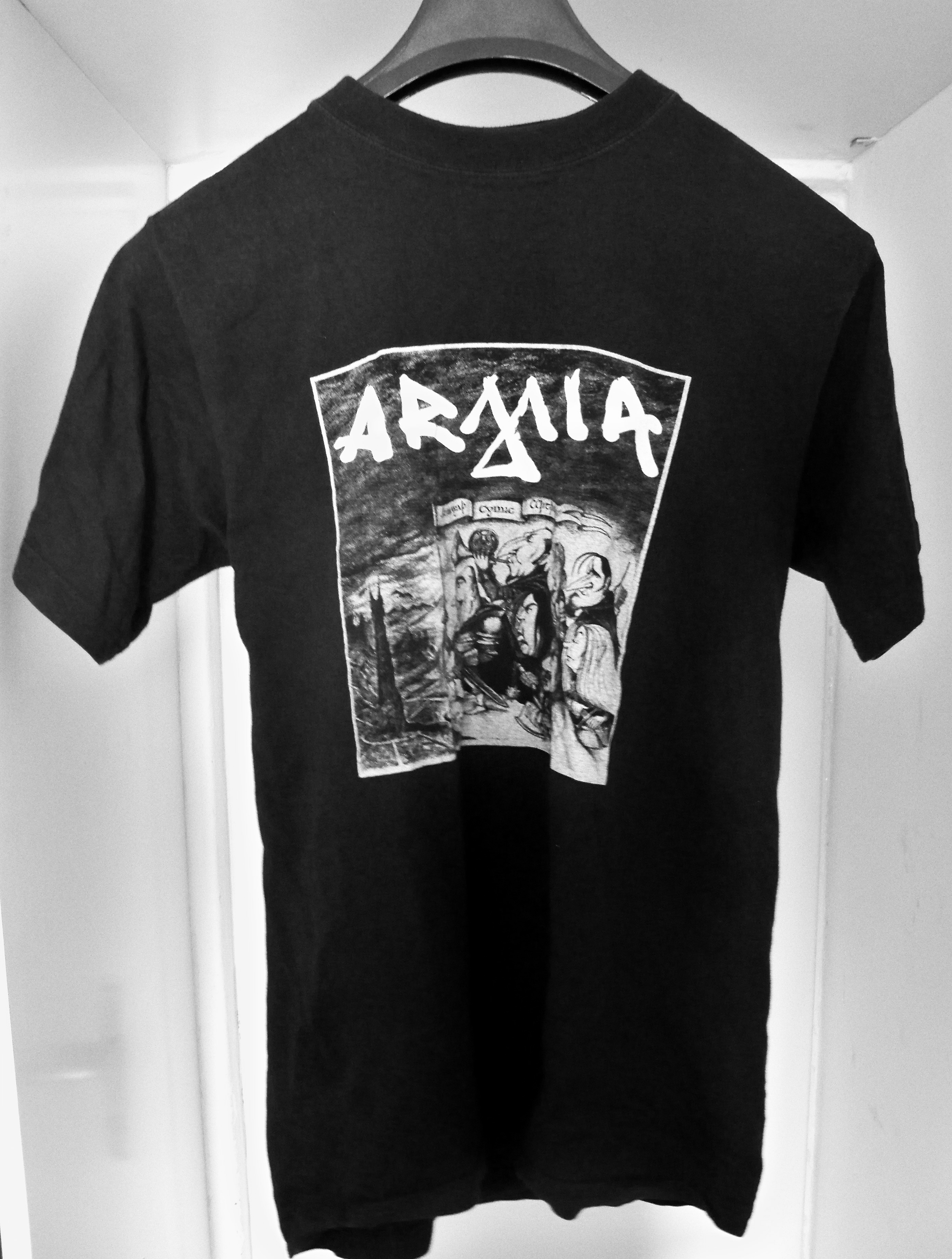 A fan-made T-shirt of Armia band as Tolkien's the fellowship of the Ring